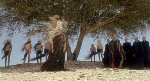 Screenshot from Edipo re